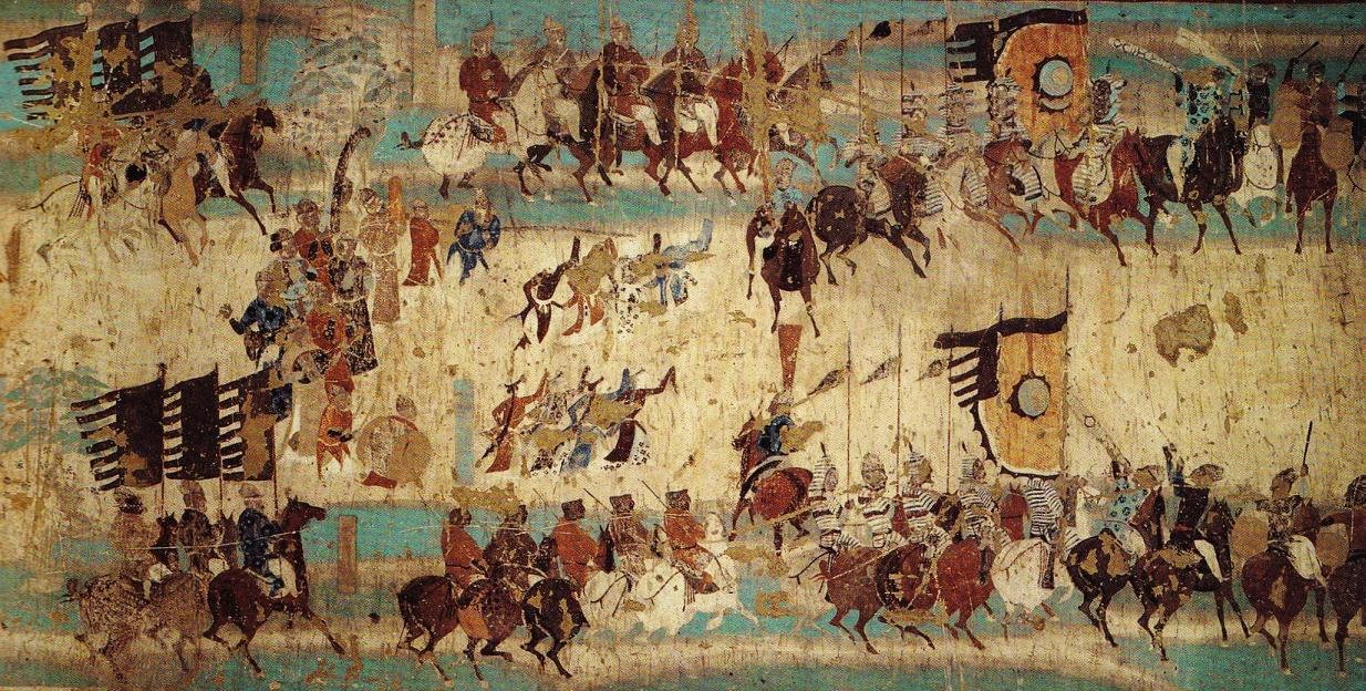 Section of mural depicting victory of general Zhang Yichao who expelled the Tibetans from Dunhuang. Cave 156, Late Tang Dynasty.